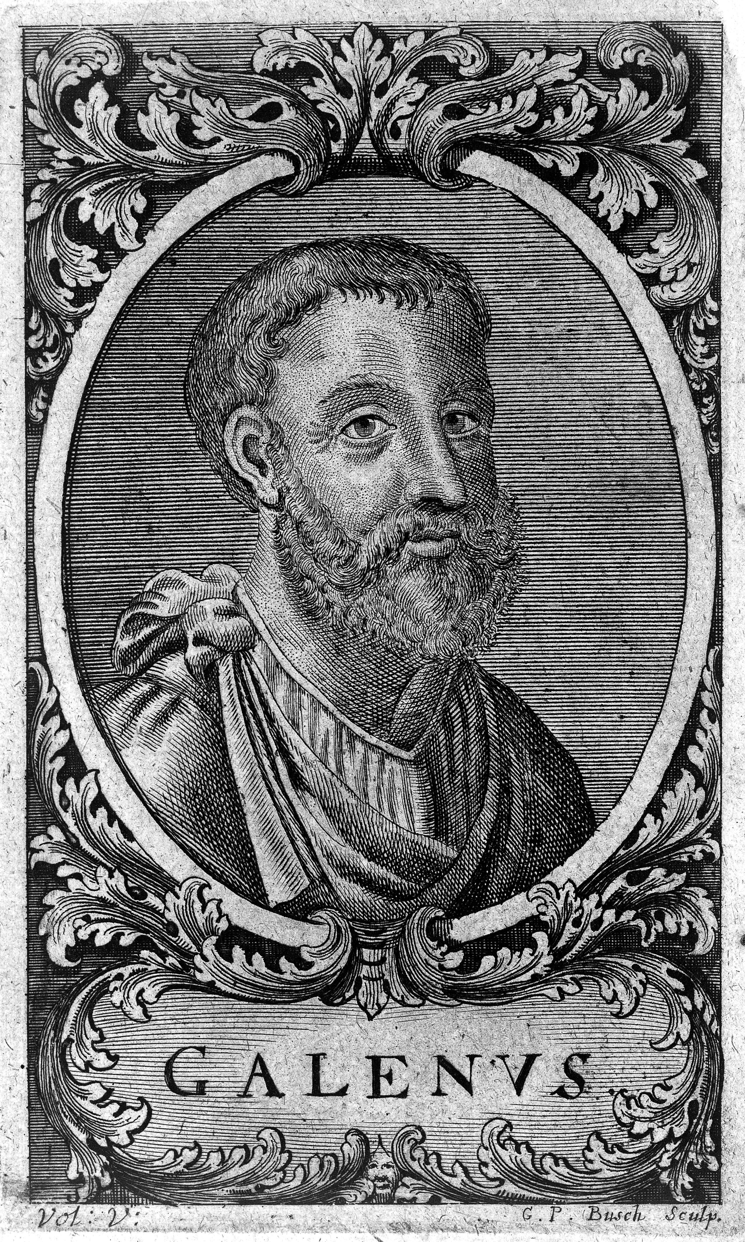 GALEN {c. 130-200 A.D.} Engraving: 'portrait' of Galen, head and shoulders; by G. P. Busch, n.d. S 10 S 10 Iconographic Collections Keywords: burgess, portraits, 1069.3; galen {c. 130-200 a.d.}; Portraits